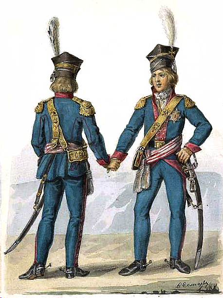 Rittmesiter of the Polish National Cavalry in 1792.